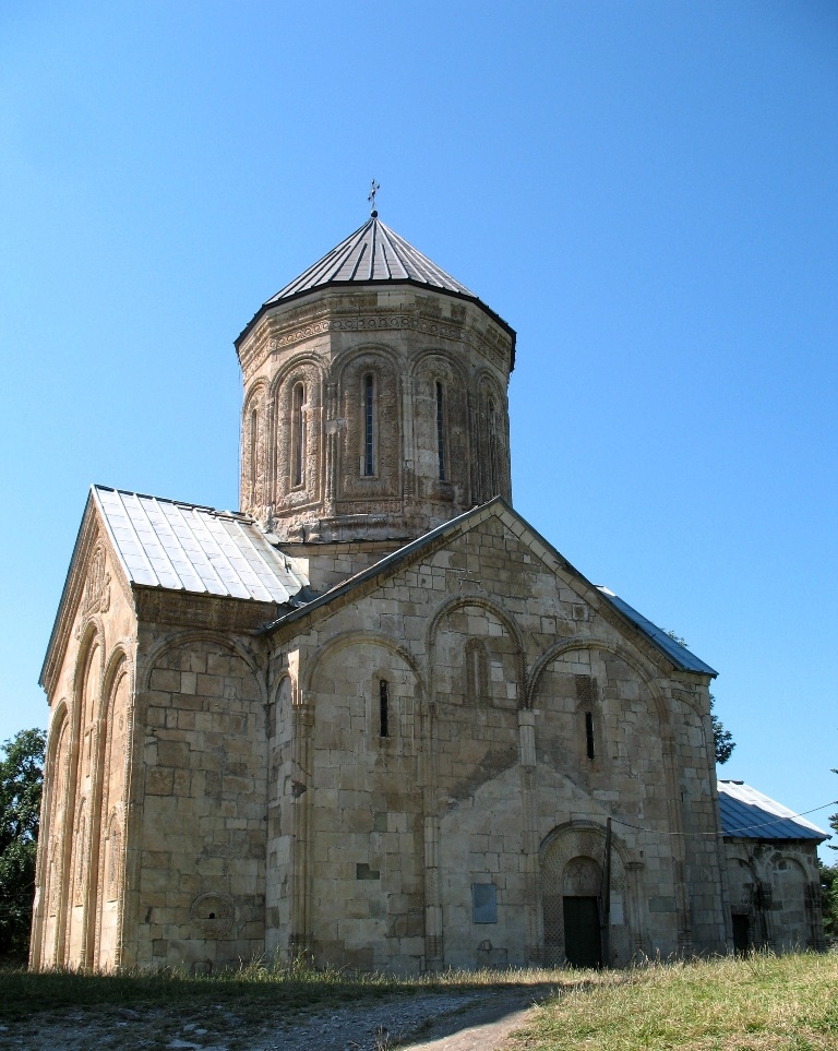 Nikortsminda Cathedral — classical stone Georgian Orthodox church in Georgia.